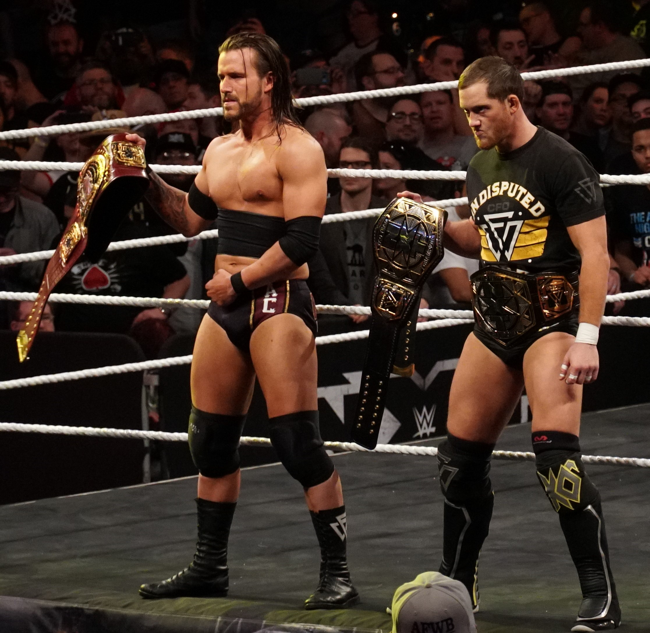 Adam Cole (left) holding the NXT North American title and Kyle O'Reilly holding the NXT Tag Team Championships at NXT TakeOver: New Orelans in April 2018.